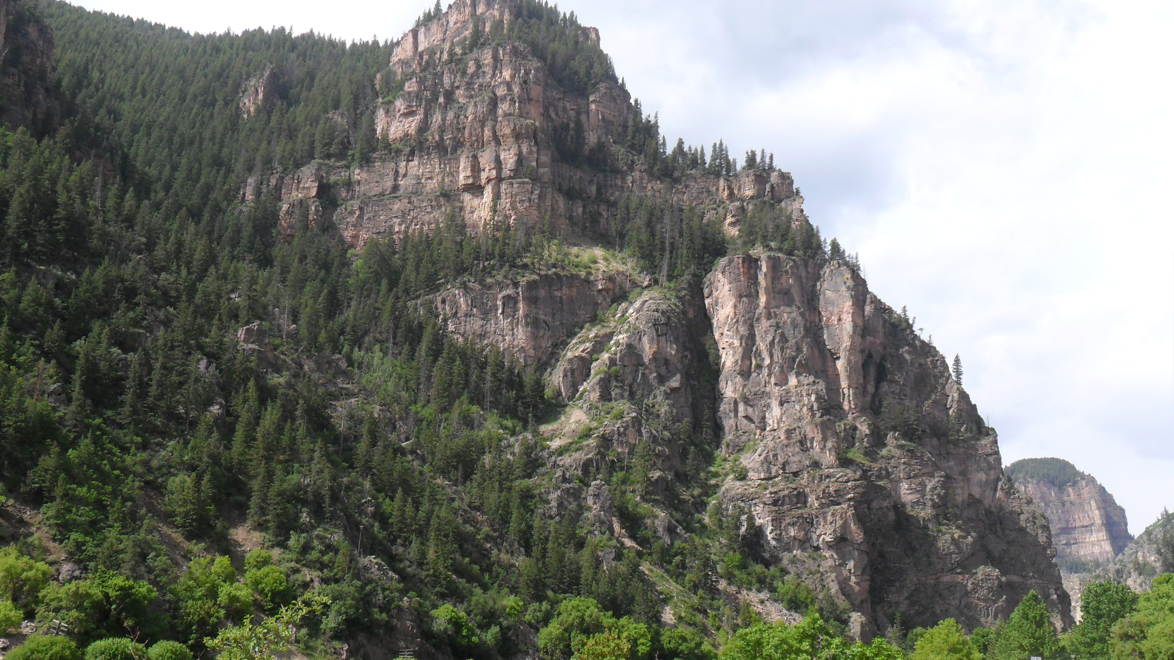 Canyon wall in Glenwood Springs